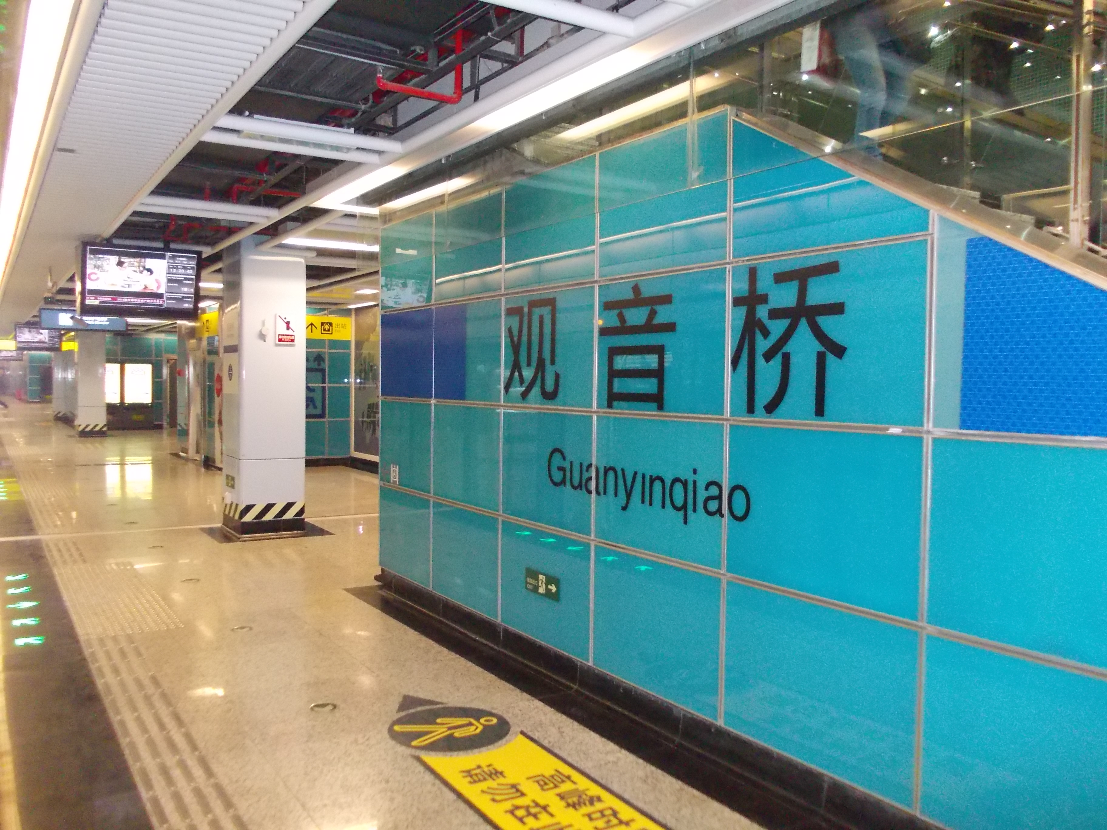 Chongqing Rail Transit - Guanyinqiao